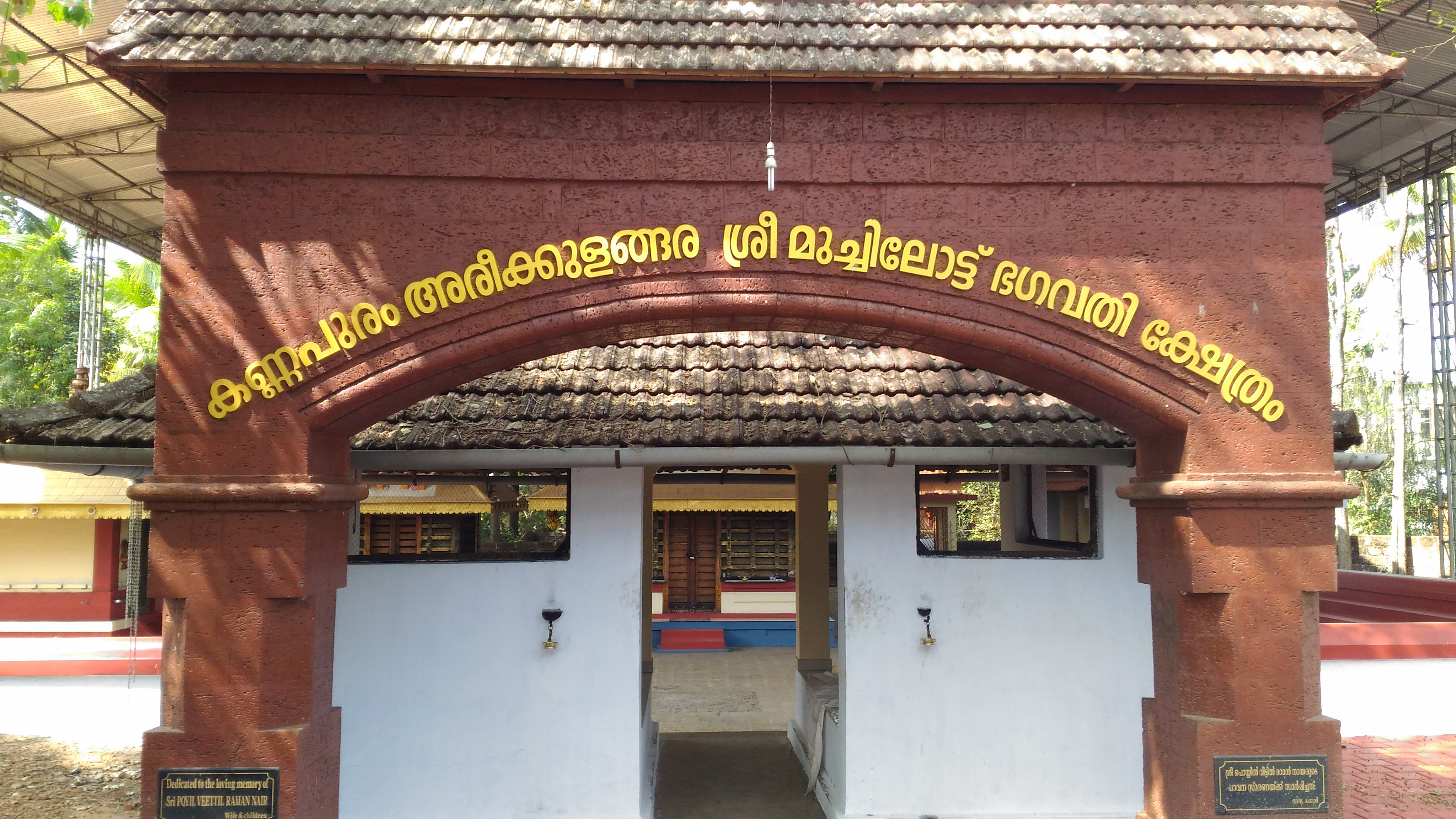 Kannapuram Muchilot Temple